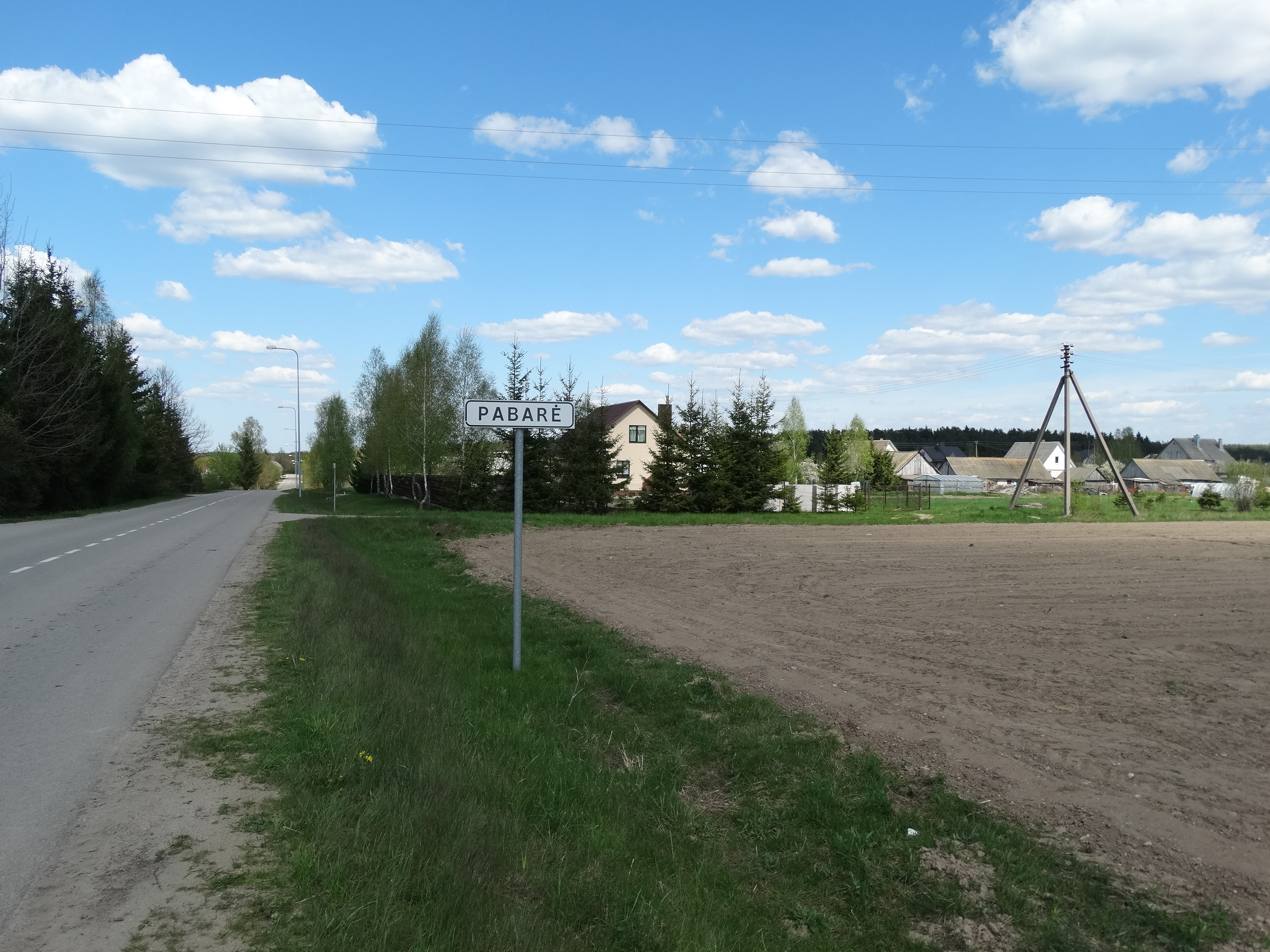 Pabarė, Šalčininkai District, Lithuania